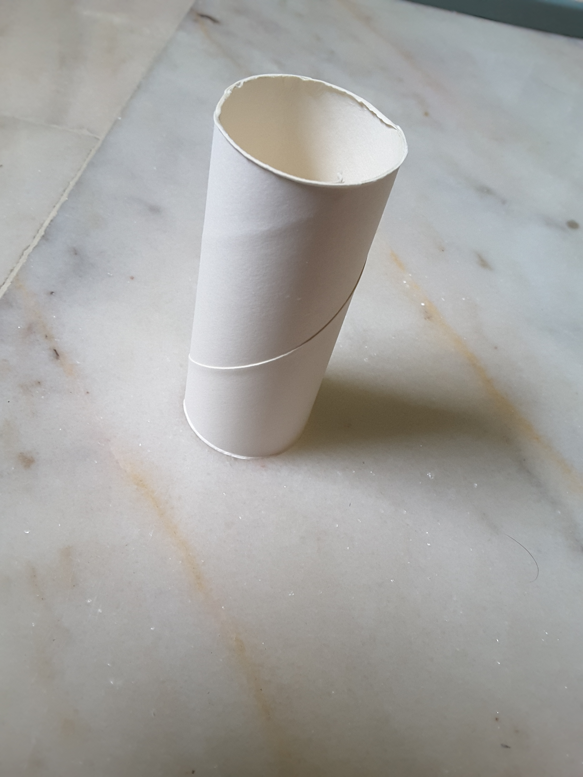 The cardboard in each roll of toilet paper can also be recycled as paper.